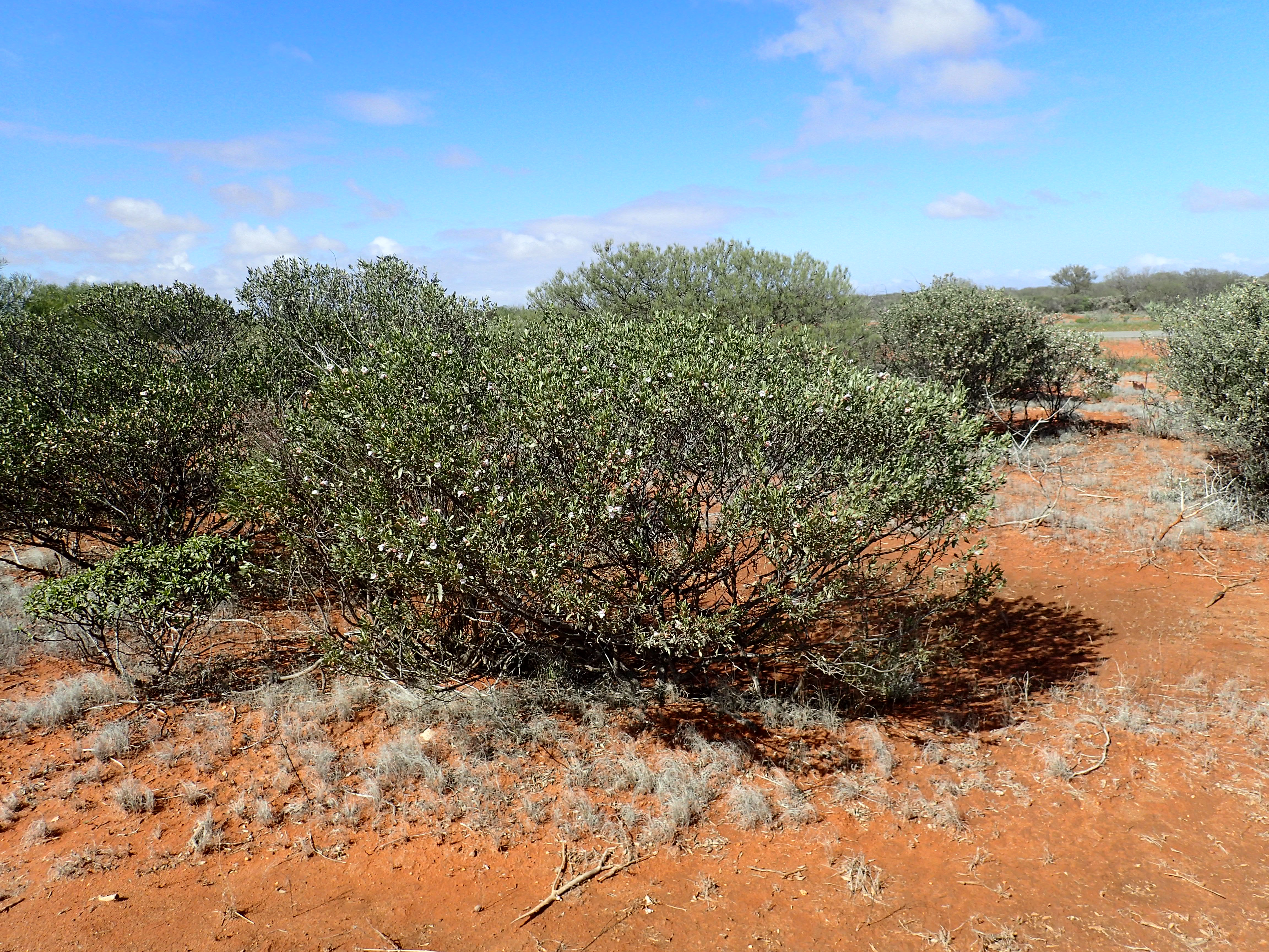 Eremophila tietkensii 13.5km east of the "Mooka" turnoff